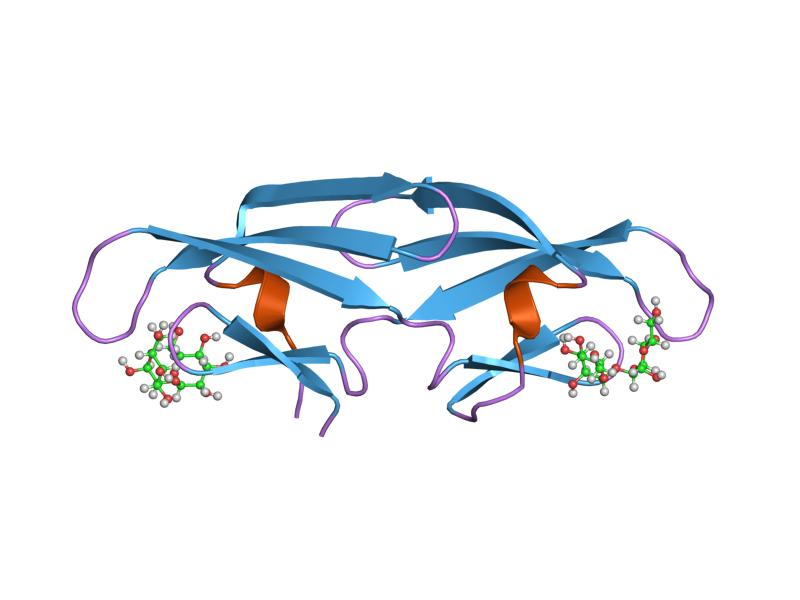 Cartoon representation of the molecular structure of protein registered with 1iiy code.